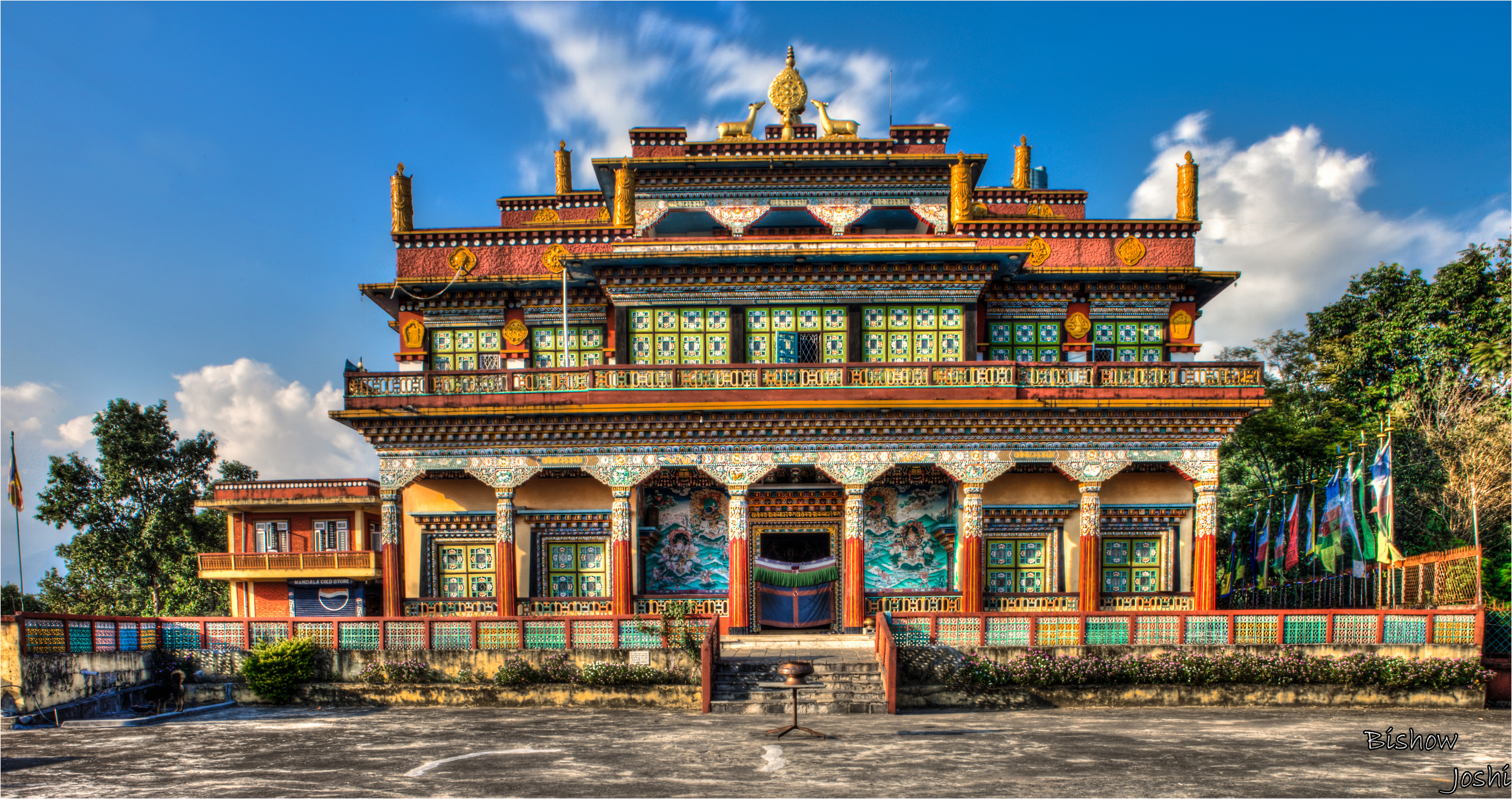 located in pokhara, mateypani